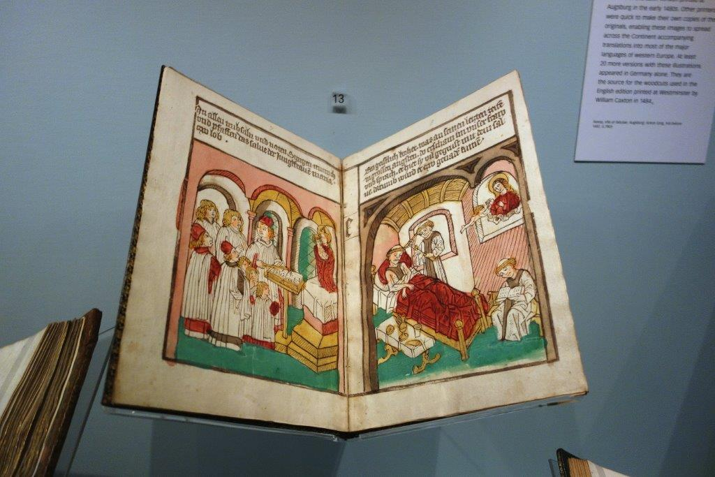 German block book "Salve Regina", ca. 1470. The only - incomplete - copy in the British Library